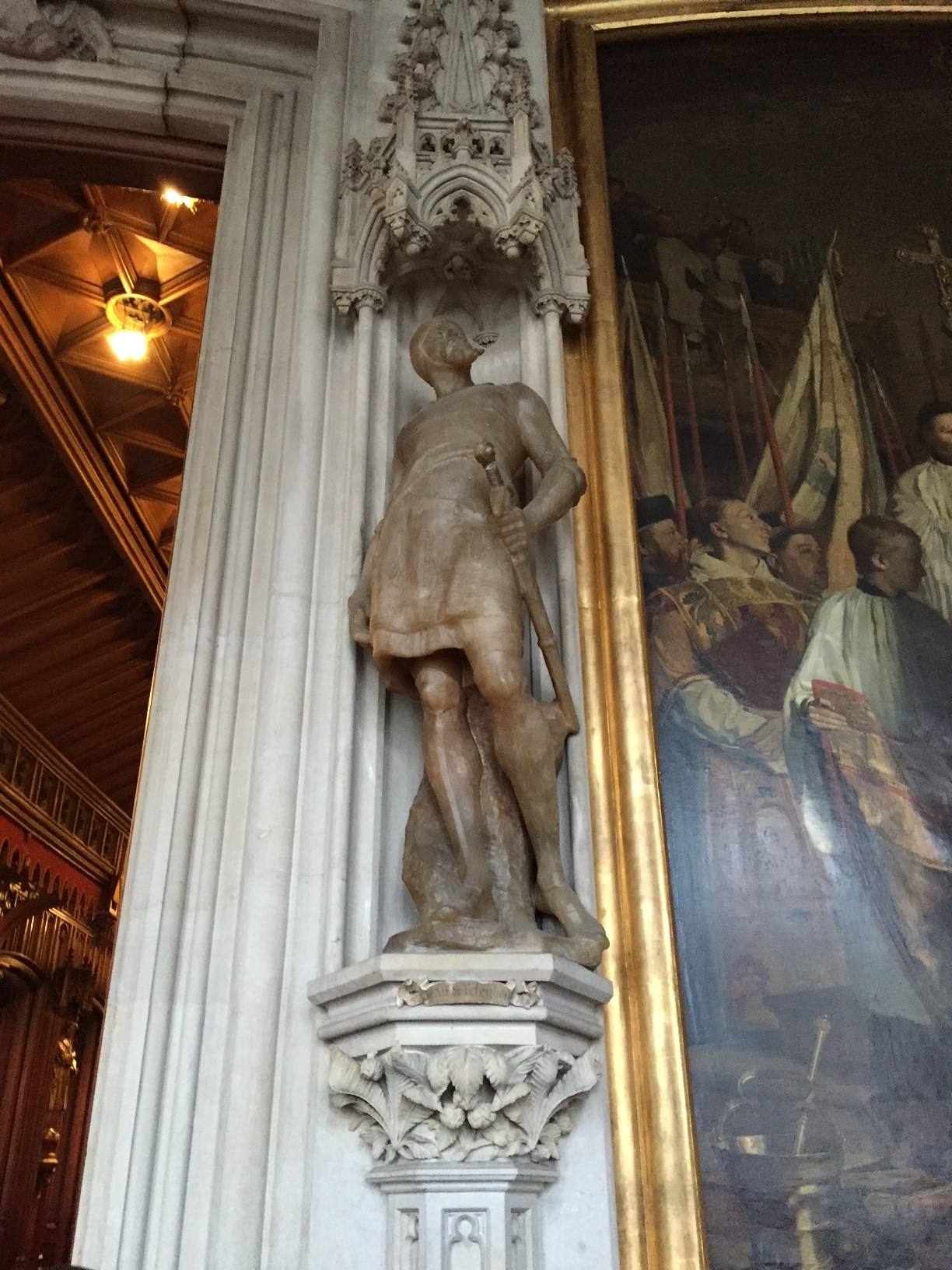 Alabaster statue of Jan van Releghem above the main staircase of the Brussels Town Hall